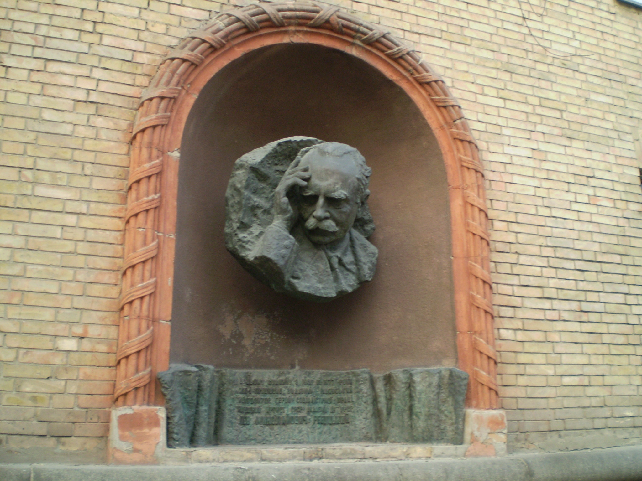 memorial plaque to L.Revutsky in Kiev